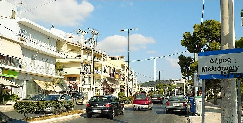 Melissia-Athens-Greece